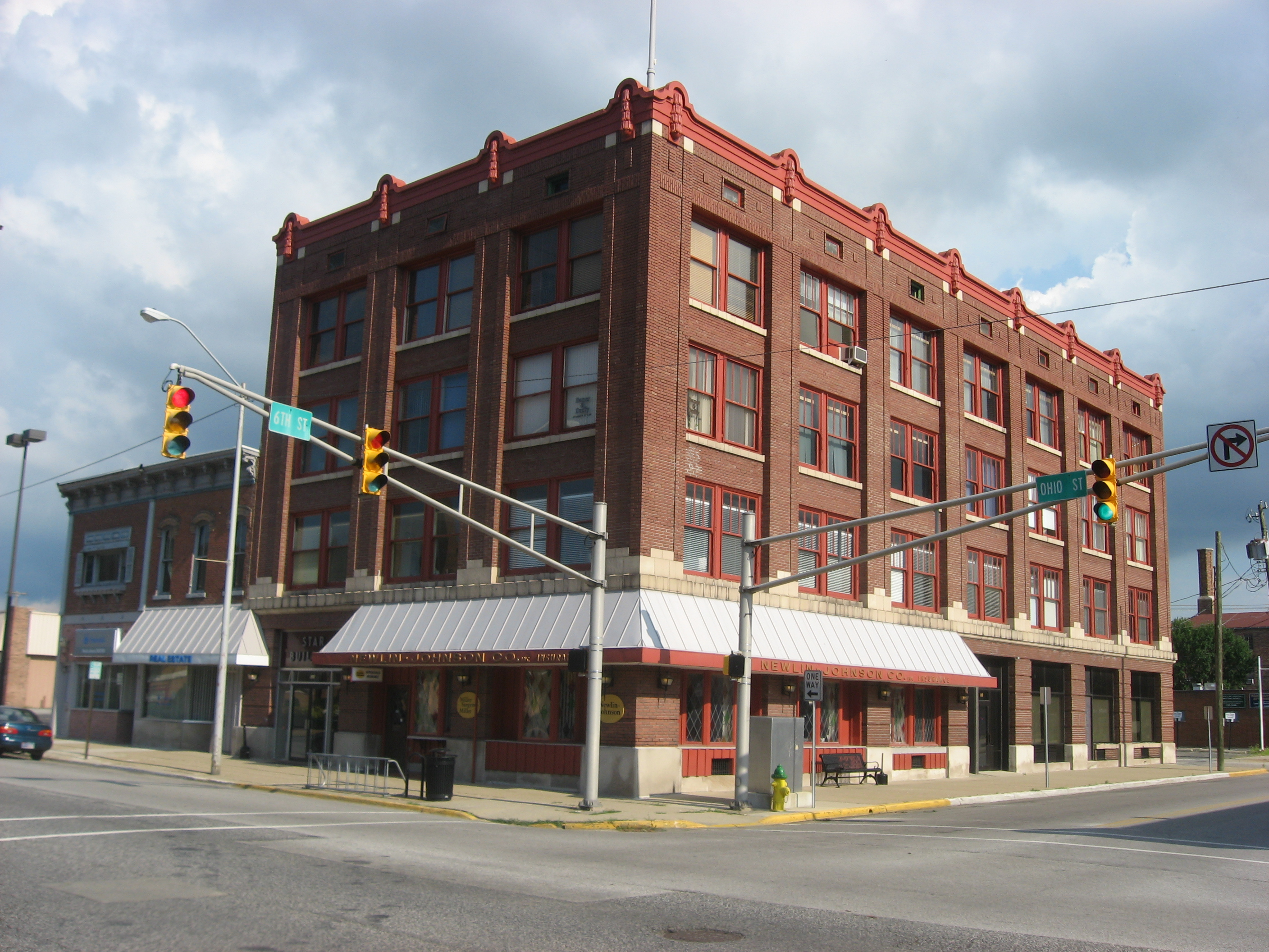 Front and western side of the Star Building, located at 601-603 Ohio Street in Terre Haute, Indiana, United States. Built in 1912, it is listed on the National Register of Historic Places.